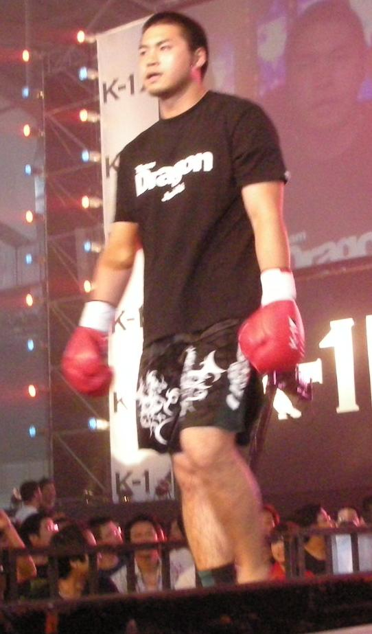 Cropped from original image.